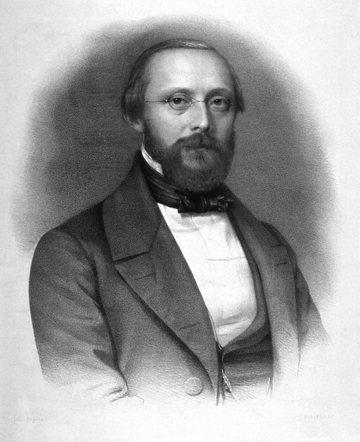 Portrait of Rudolf Virchow (1821—1902).